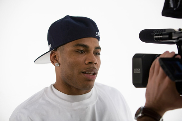 Nelly